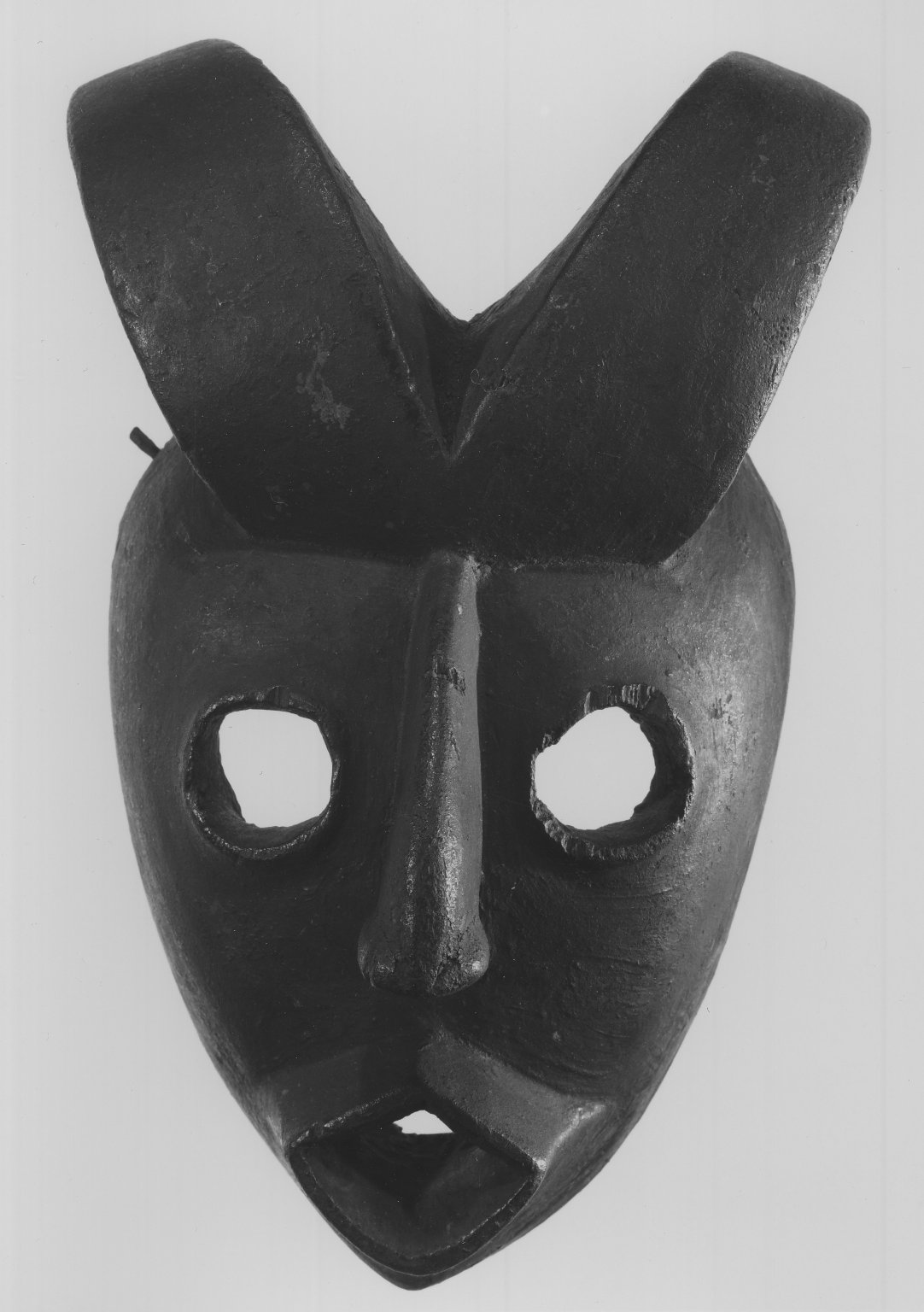 Face Mask with Two Curved Horns